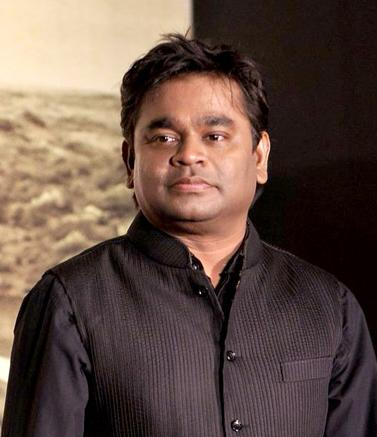 A. R. Rahman at press conference for the film 'Highway'.